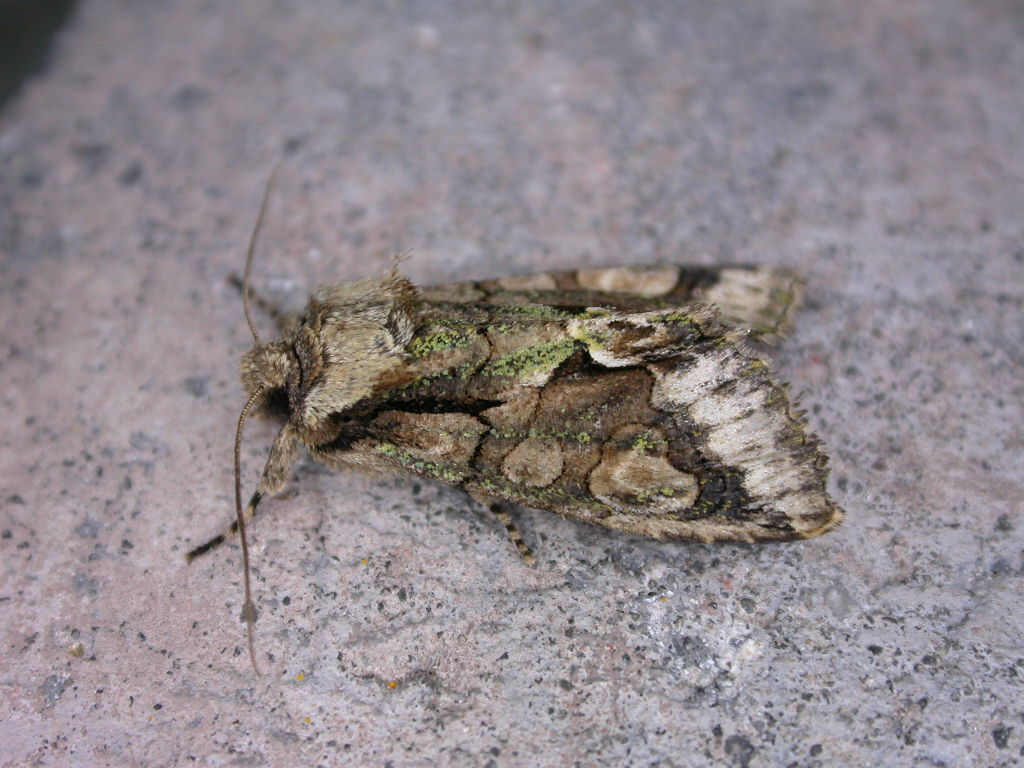 Allophyes oxyacanthae, to MV light, Hellerup, Denmark, 14 October 2005